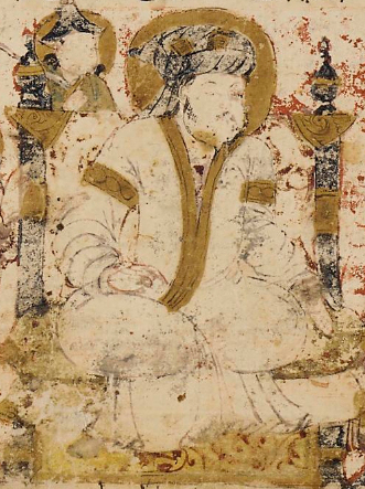 Folio from a Tarikhnama (Book of history) by Balami